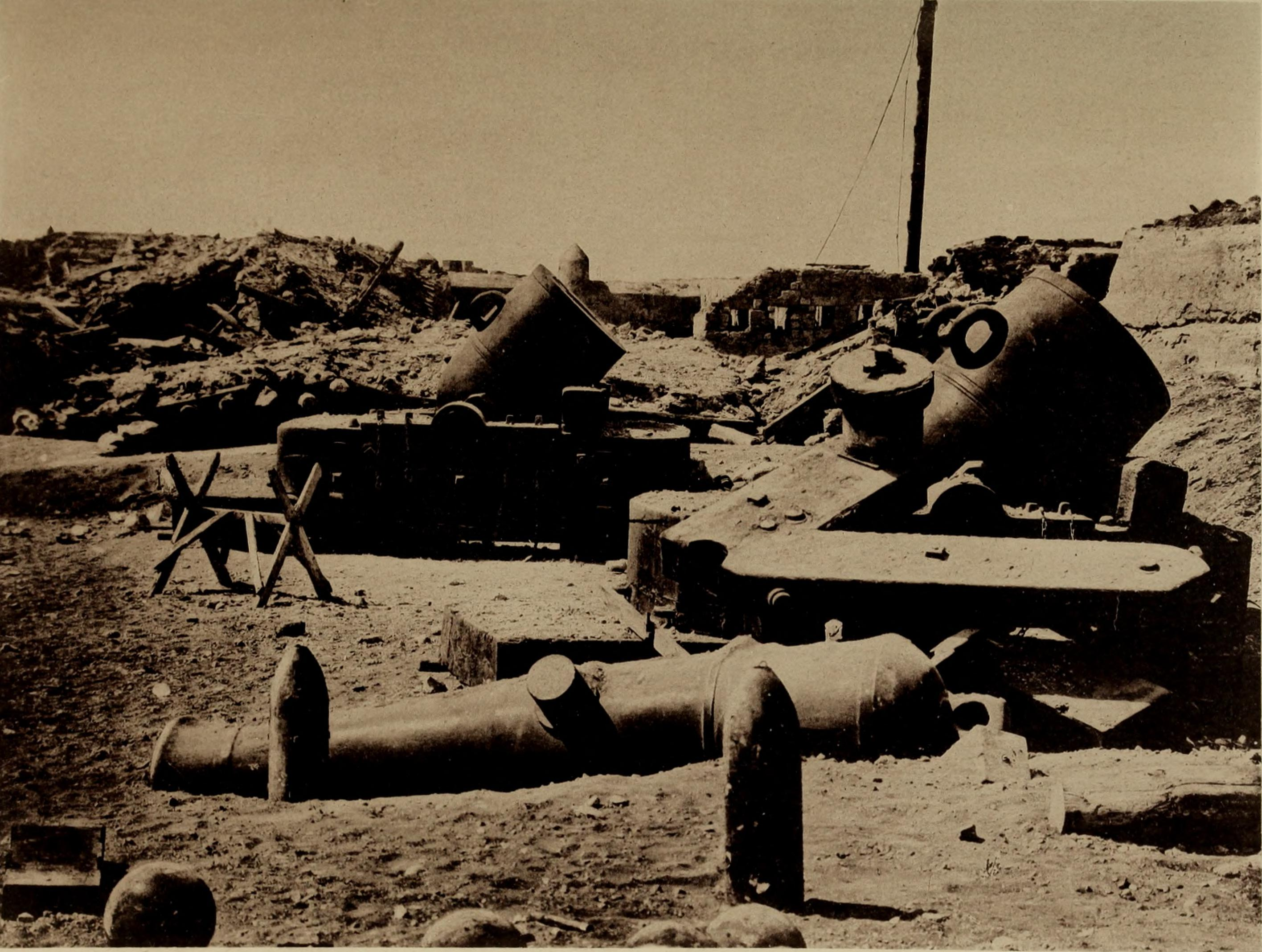 Title: Report of the British naval and military operations in Egypt, 1882 Year: 1883 (1880s) Authors: Goodrich, Caspar F. (Caspar Frederick), 1847-1925 Subjects: Publisher: Washington, Gov't print. off. Text Appearing Before Image: PLATE 20. Text Appearing After Image: \